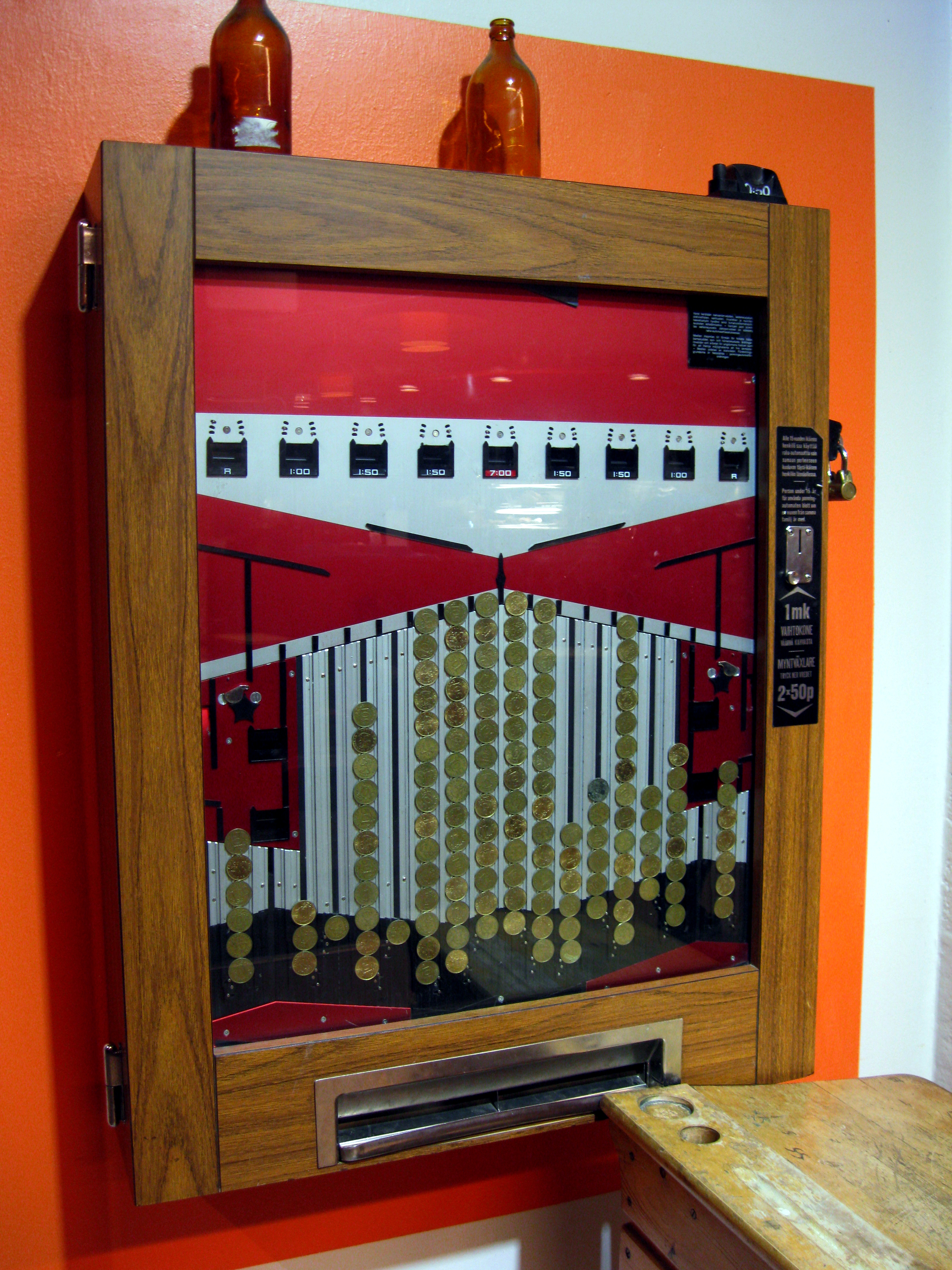 Payazzo